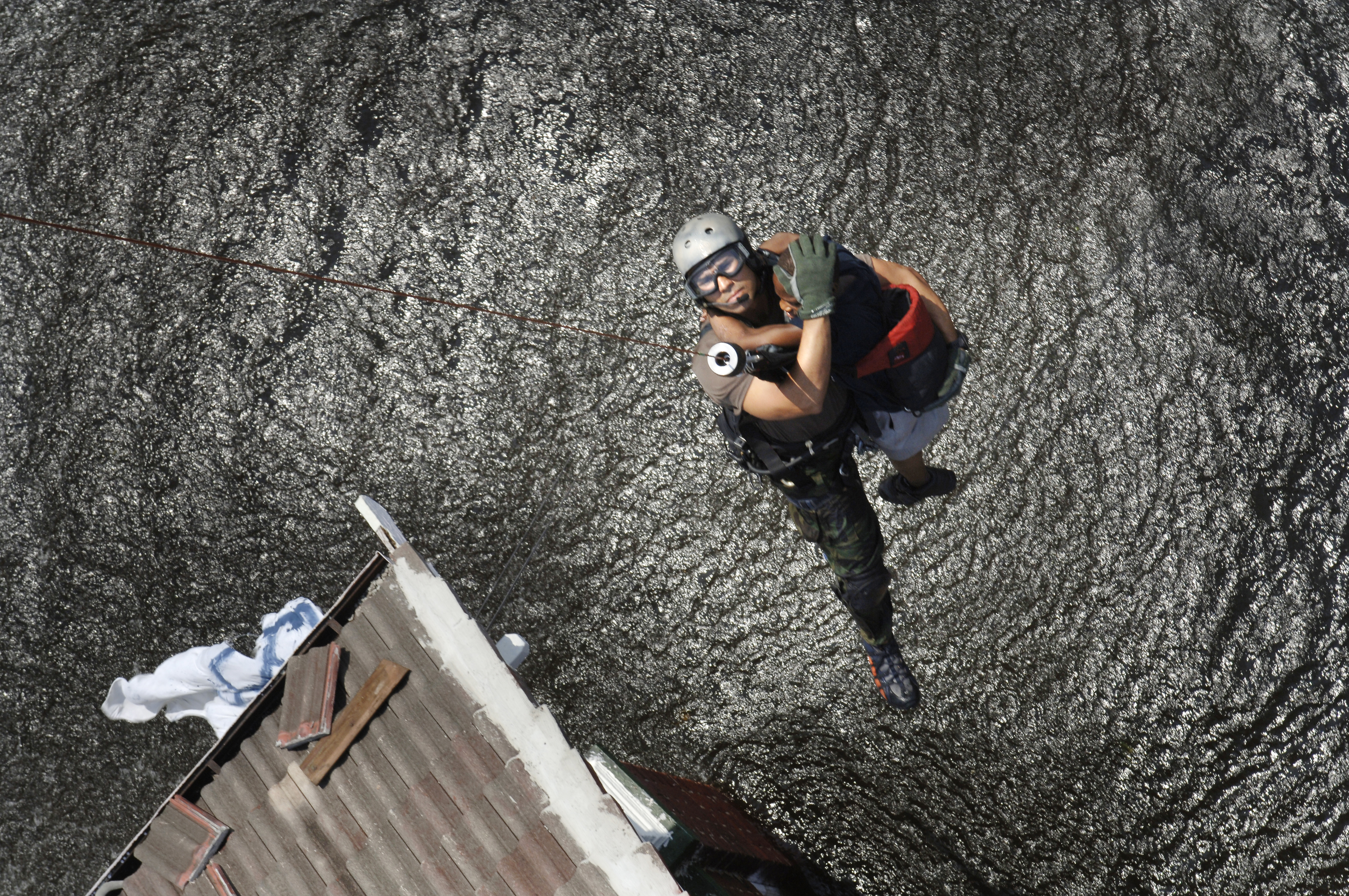 Tech. Sgt. Lem Torres and a young boy are lifted to safety from the roof of the child's flooded home. The pararescueman is from 38th Rescue Squadron at Moody Air Force Base, Ga., and is deployed to New Orleans for Hurricane Katrina search-and-rescue operations. (U.S. Air Force photo by Staff Sgt. Manuel J. Martinez)